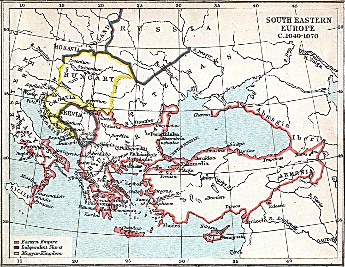 Map of south-eastern Europe and Asia Minor c. 1040 AD